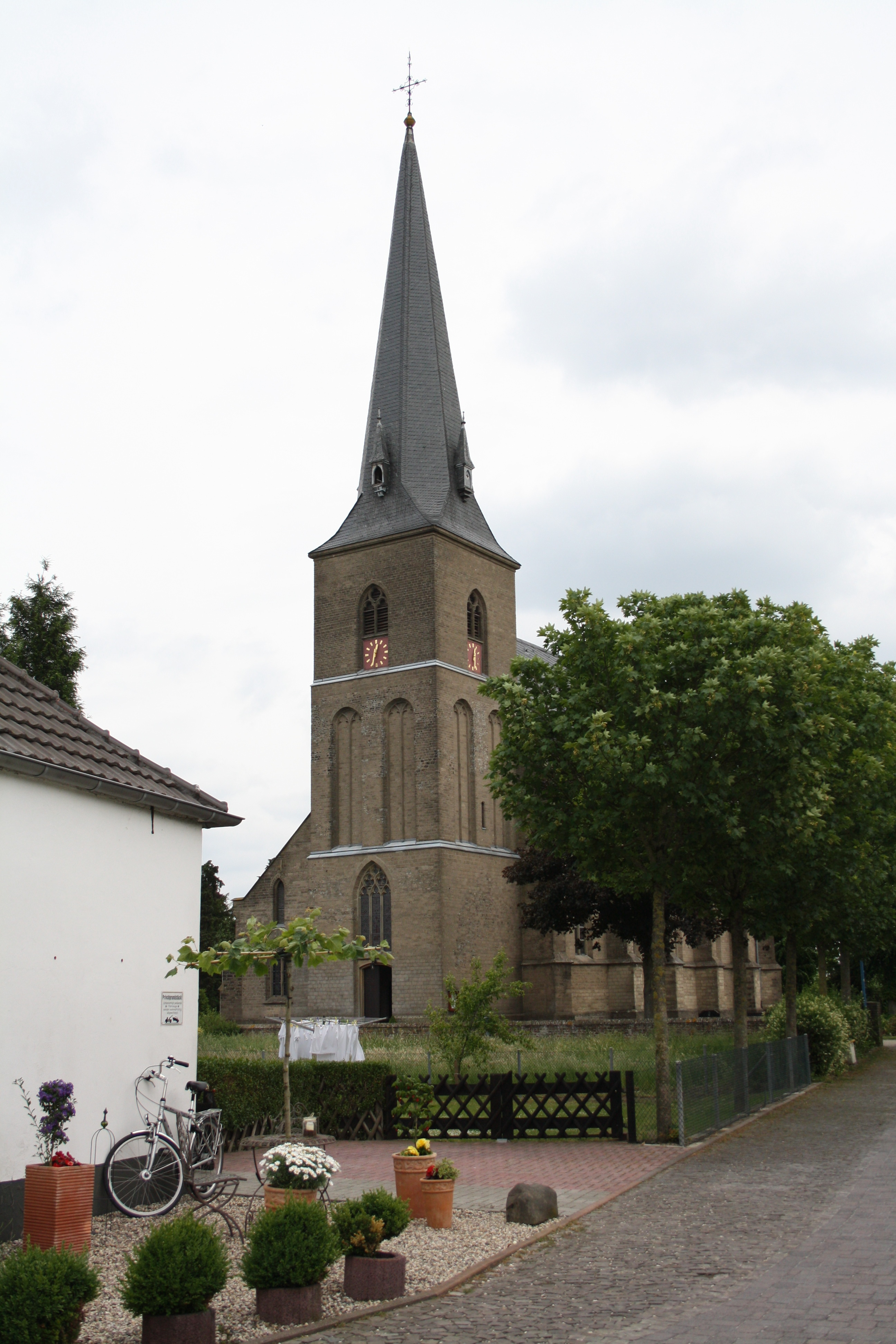 St. Vincent's church in Bedburg Hau-Till, North Rhine-Westphalia, Germany